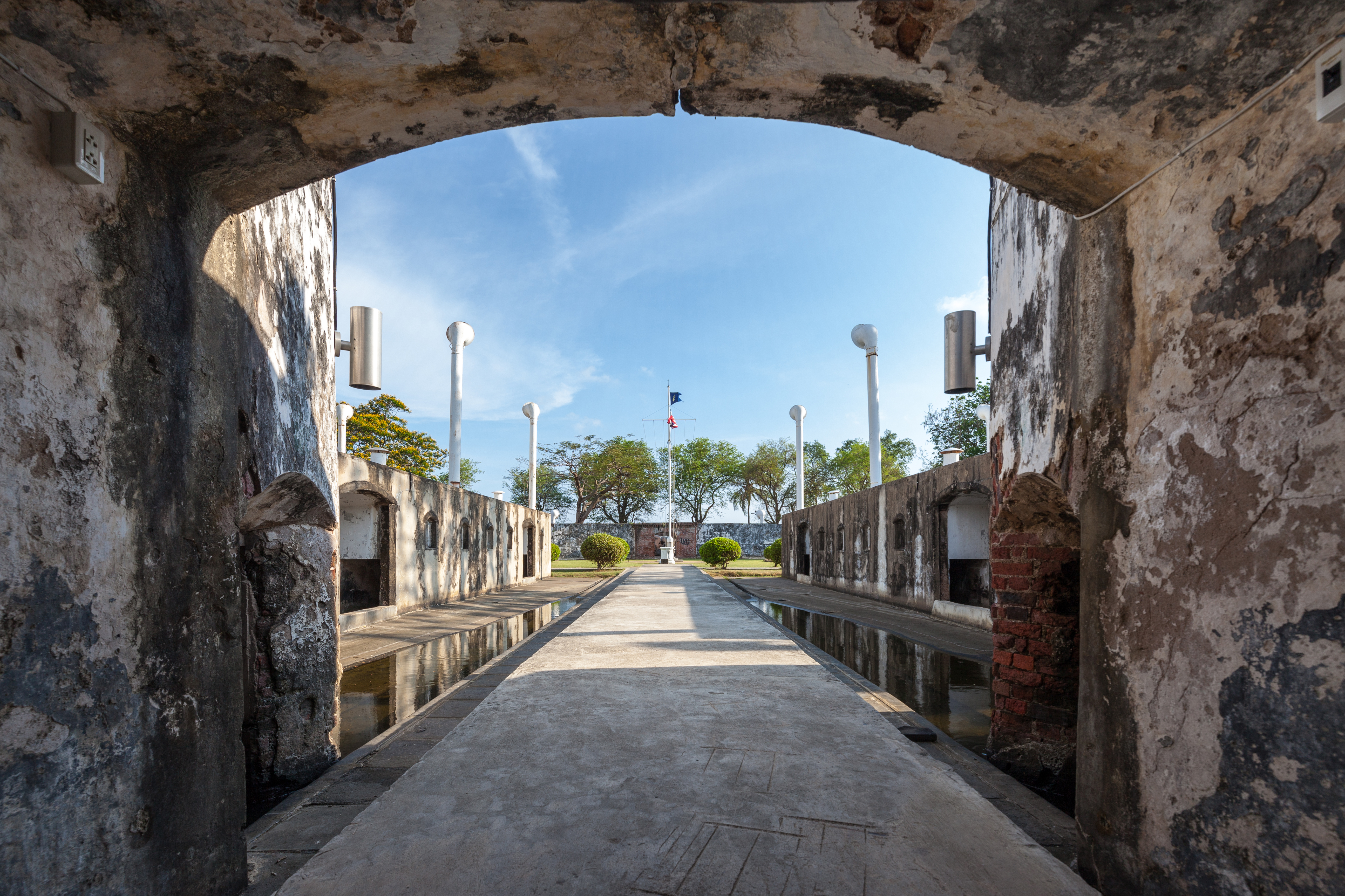 Phi Suea Samut Fort, Phra Samut Chedi District, Samut Prakan Province, central Thailand.